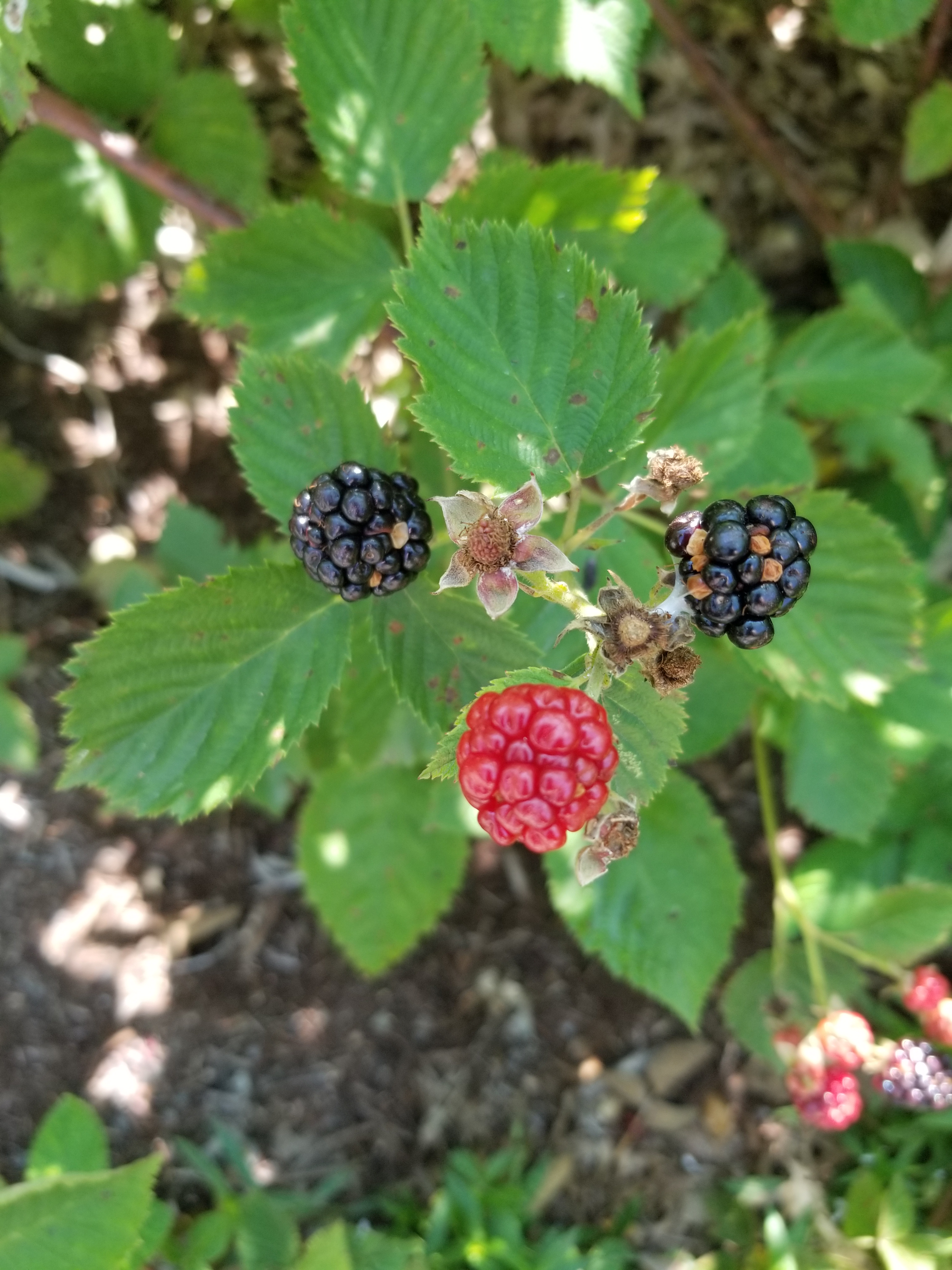 Fruits of a Rubus argutus plant at varying stages of maturity. Picture taken at the University of Tennessee, Knoxville Botanical Gardens.